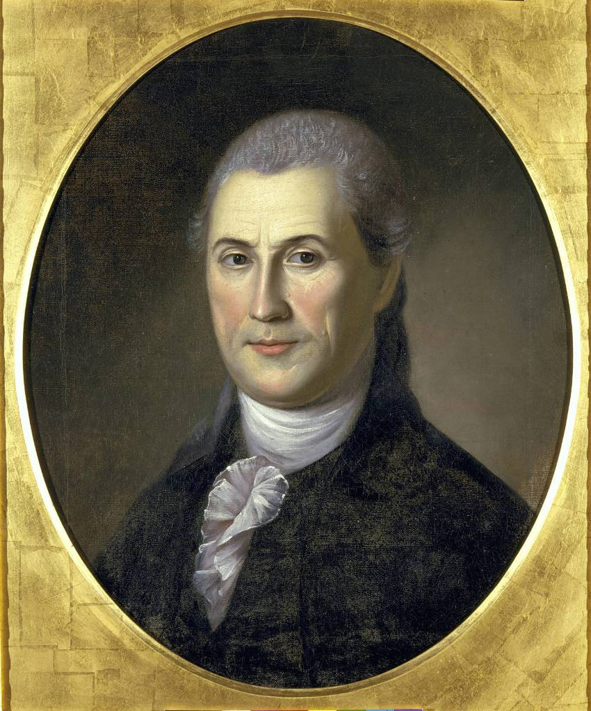 Samuel Huntington, was a jurist, statesman, and a delegate to the from Connecticut to the Continental Congress. He also served as President of the Continental Congress from 1779 to 1781, chief justice of the Connecticut Supreme Court from 1784 to 1785, and the 18th Governor of Connecticut from 1786 until his death.